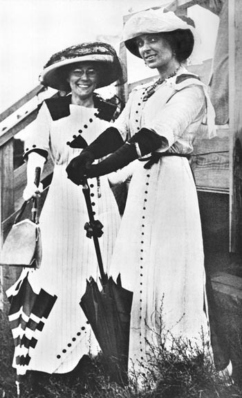 Matilde Moisant and Harriet Quimby